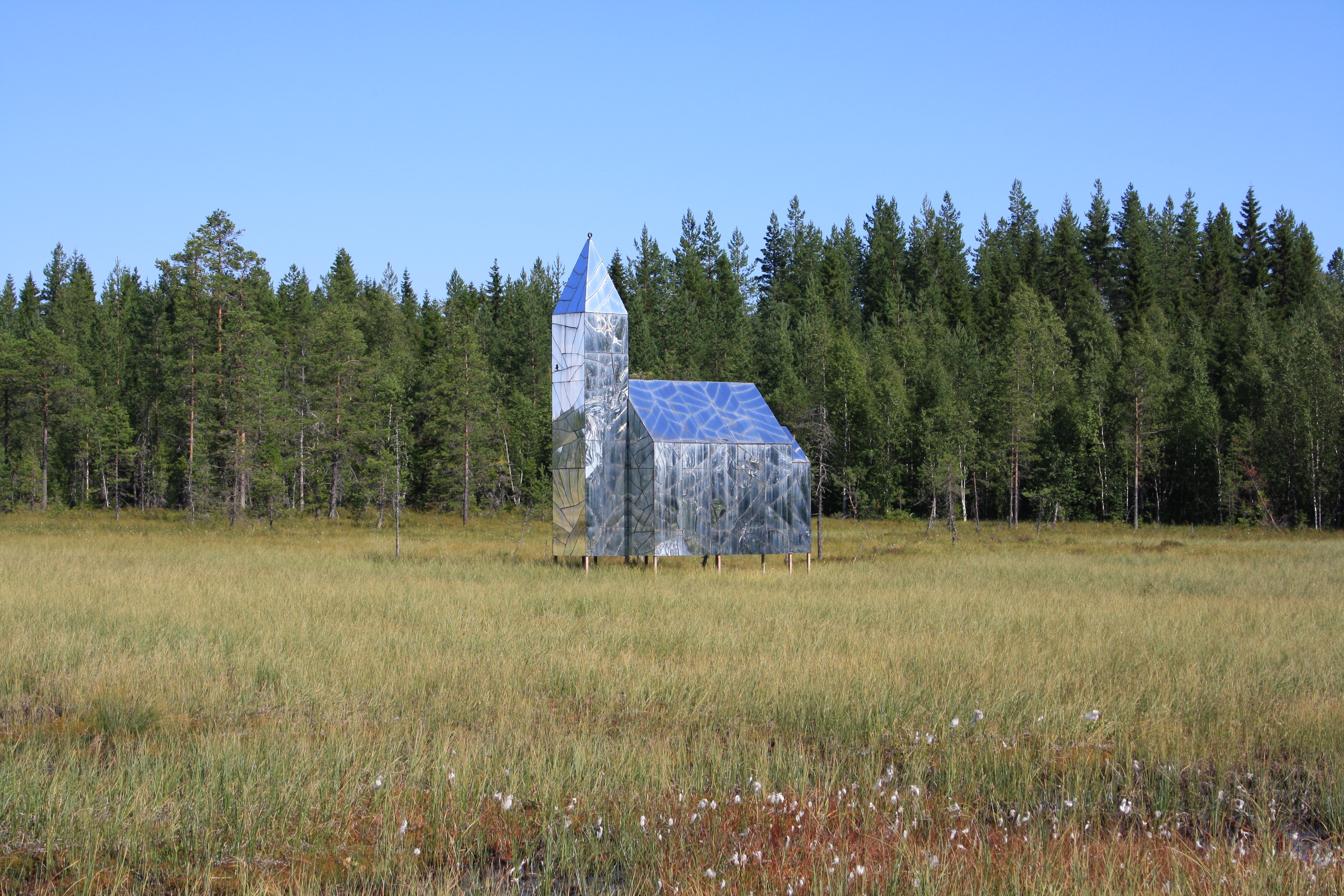 The artwork "Mirage" stands at a bog 14 km west of Vännäs, near road 92.